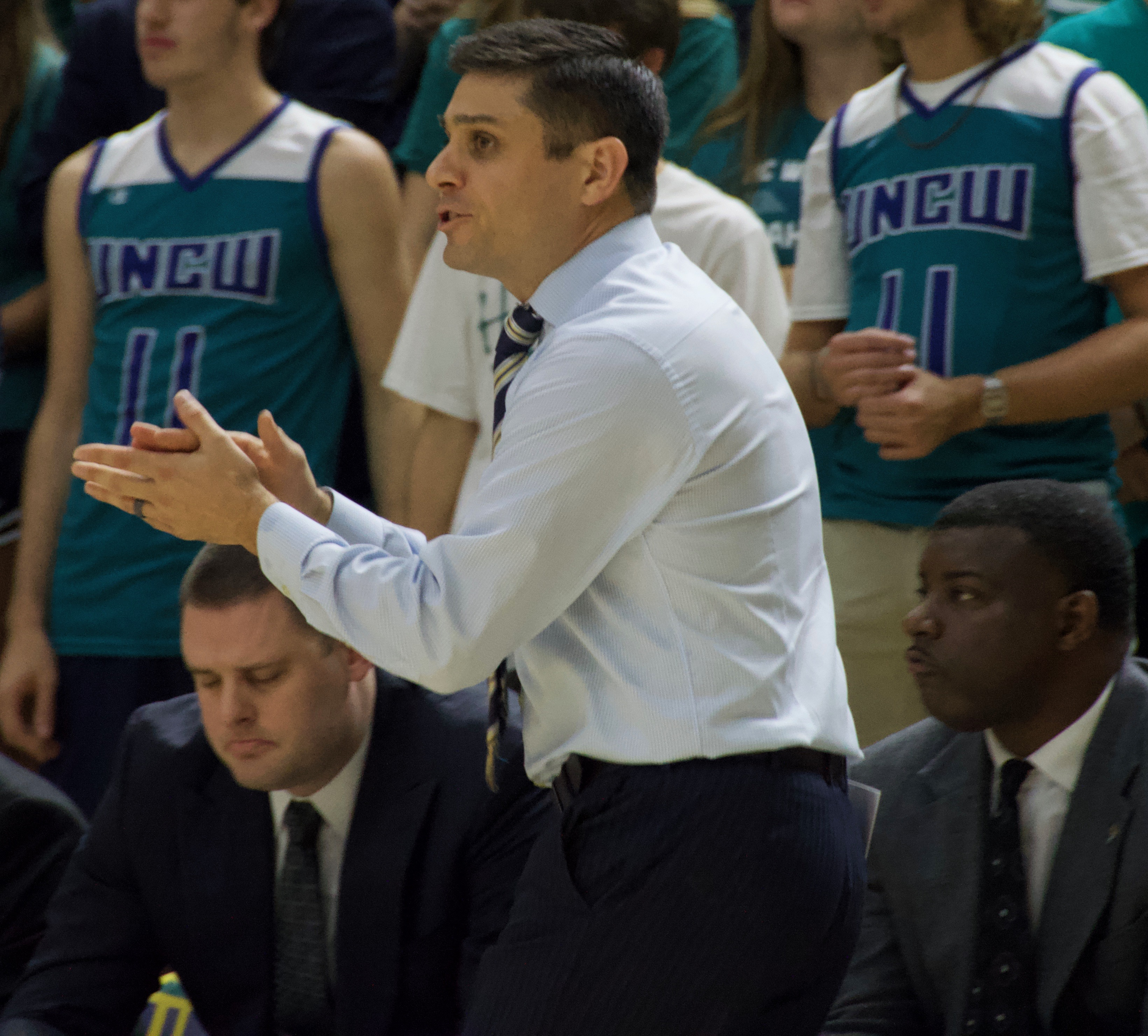 Miller during UNC Greensboro's 2018 road game v.s. UNC Wilmington